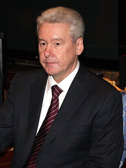 Sergey Sobyanin, October 15, 2010